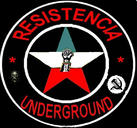 MEXICAN NU METALHEAD'S FLAG